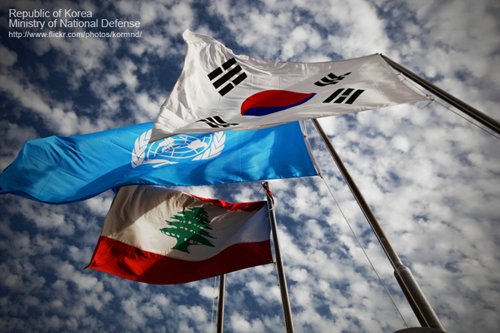 레바논 동명부대, Rep.of Korea The Dong-Myung Unit in Lebanon